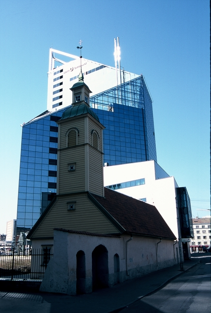 Church of St John's almshouse (Jaani-Seegi kirik), Tallinn